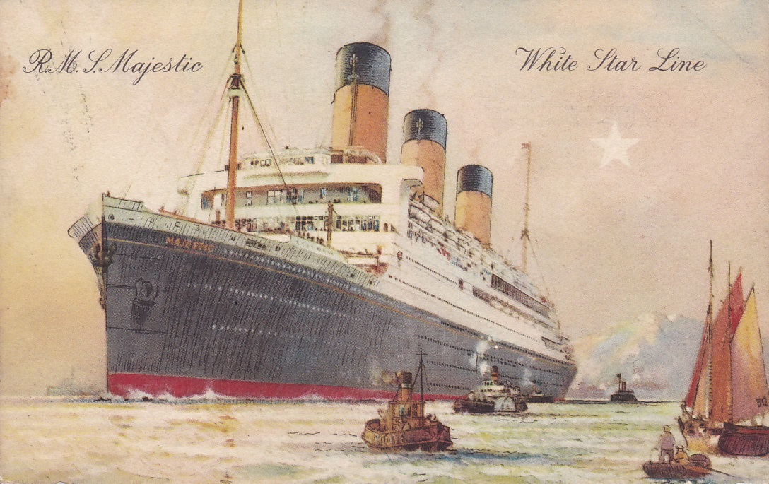 RMS Majestic from an old postcard